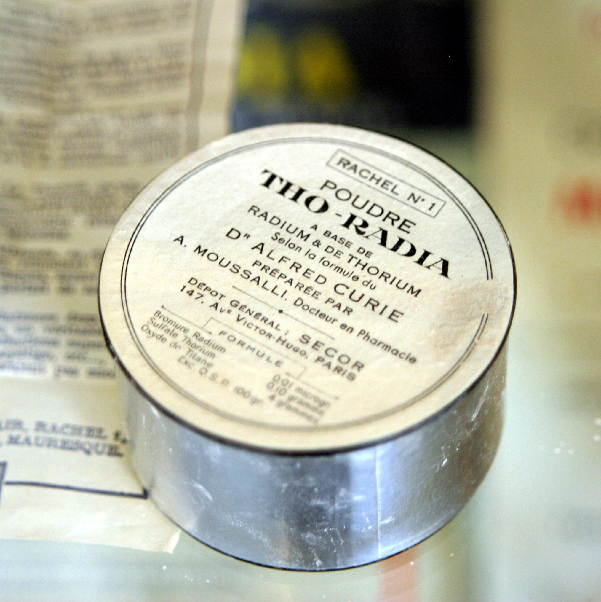 “Tho-radia powder” box, "based on radium ad thorium, according to the formula by Dr Alfred Curie", on display at the Musée Curie, Paris. Example of radioactive quackery.